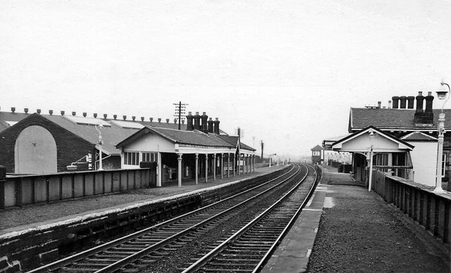 Barrhead Station. View NE, towards Glasgow, on the Glasgow - Kilmarnock main line (formerly G&SW & Caledonian Joint).